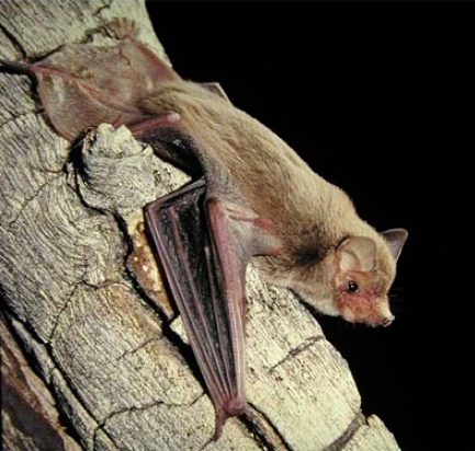 A photo of Mormopterus eleryi